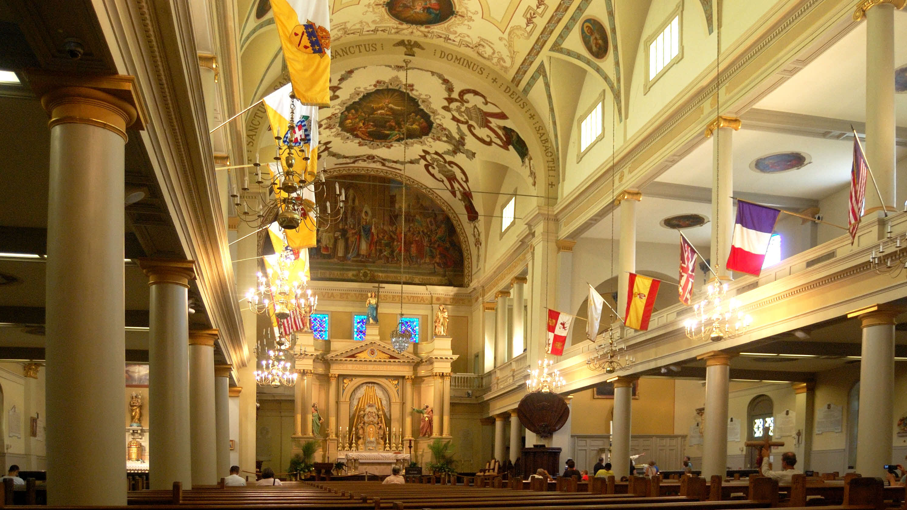 Saint-Louis cathedral in New Orleans, Louisiana